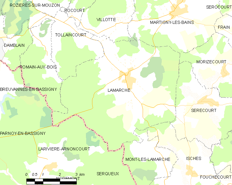 Map of French municipality Lamarche